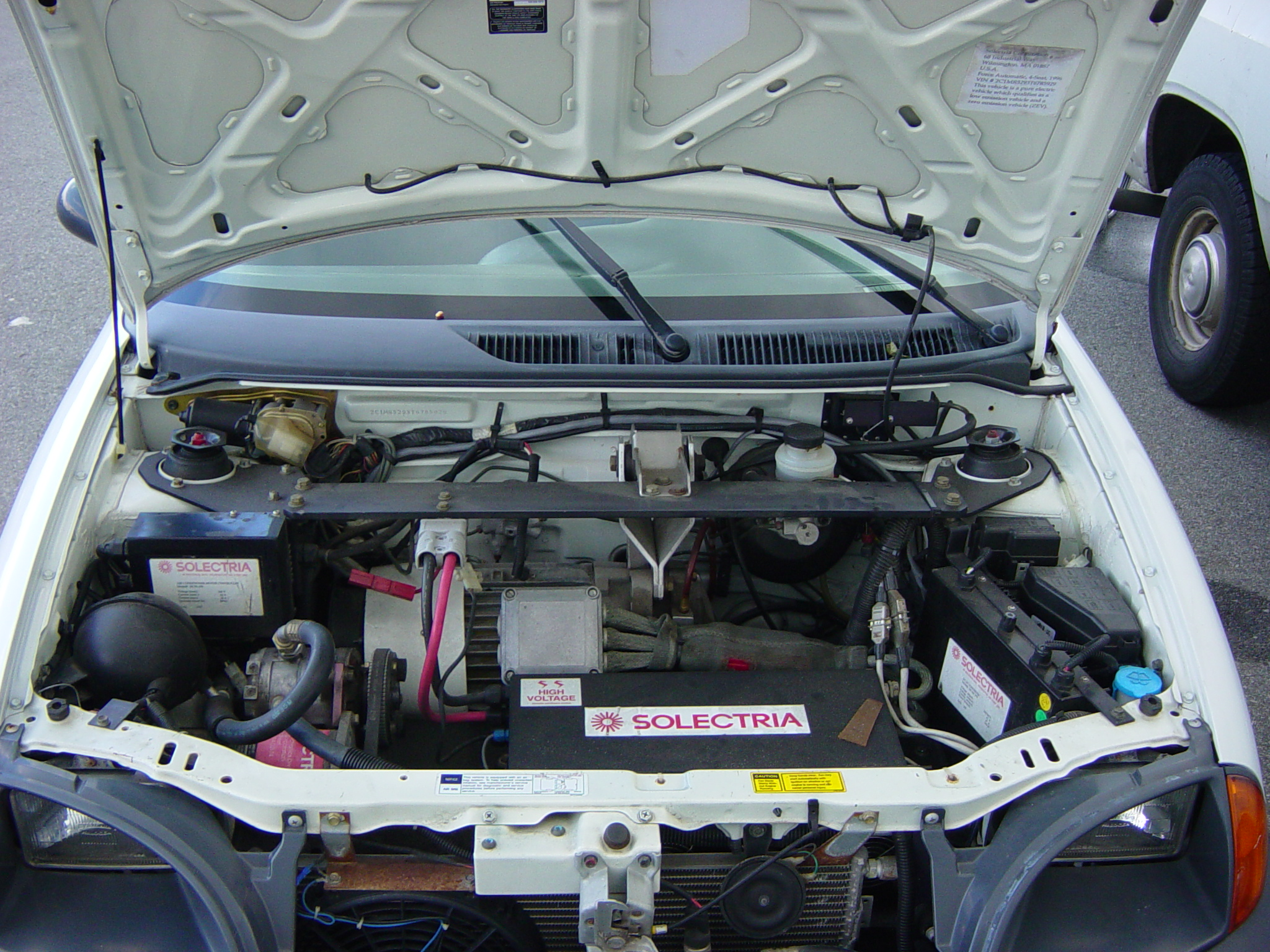 Solectria Force seen at a Vancouver EV show. Image by User:Leonard G.